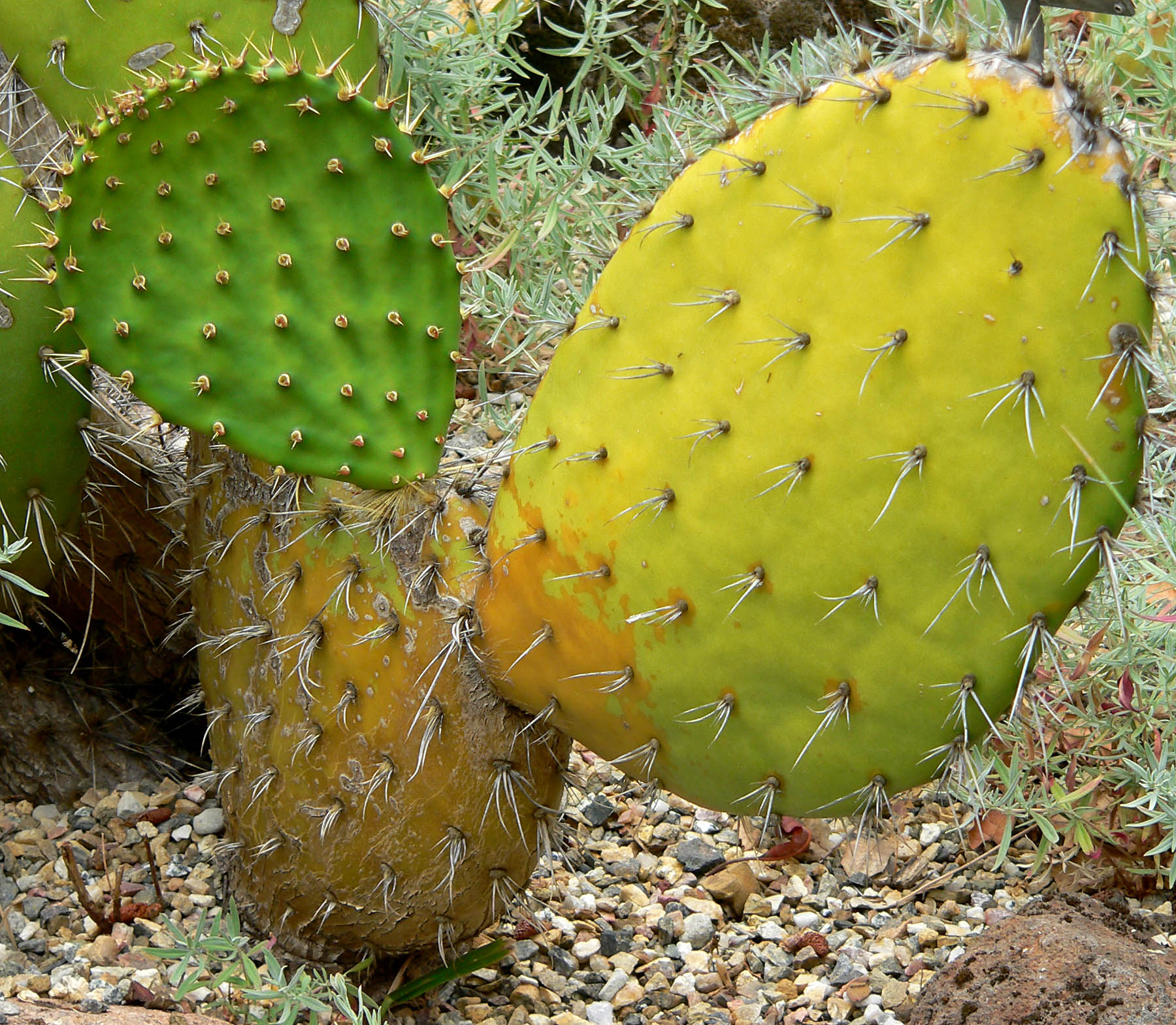 Photo of Opuntia oricola at the Regional Parks Botanic Garden